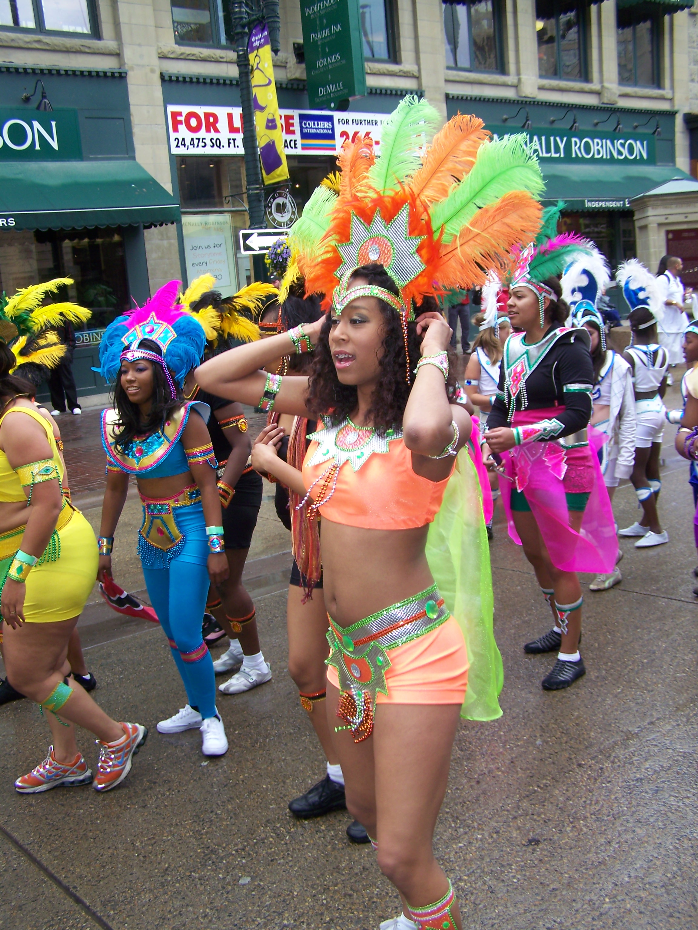 The Carifest (Calgary) parade moving West along Stephen Avenue Mall in in Calgary, Alberta, Canada.